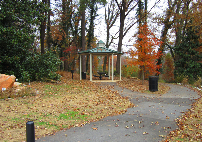 Gazebo at Henderson Park. Tucker, Georgia, United States.